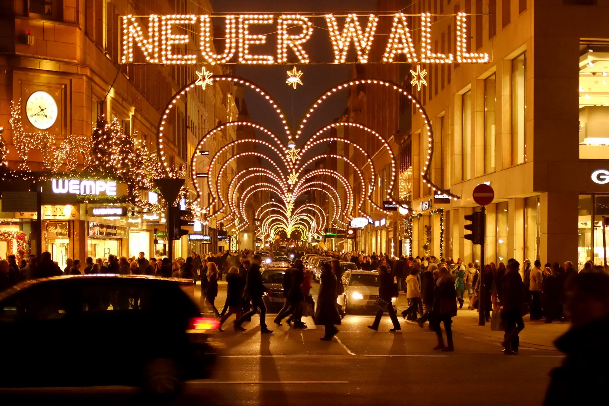 Shopping — Christmas spirit